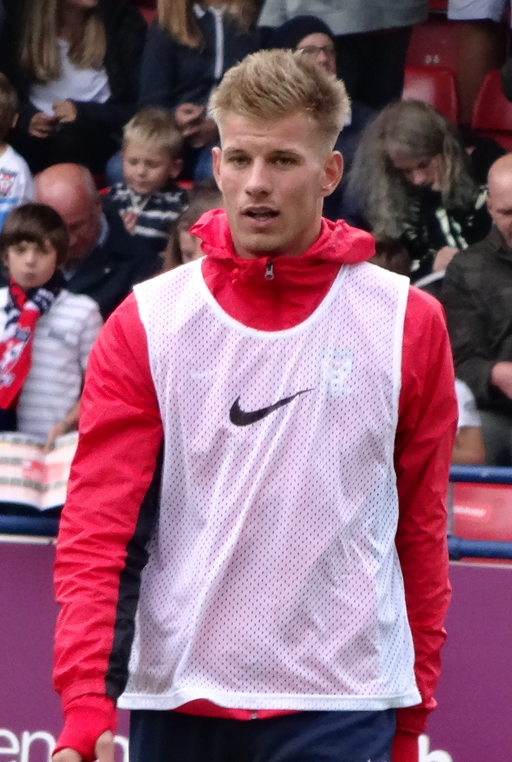 Ben Hirst warming up for York City against Northampton Town at Bootham Crescent, York on 16 August 2014